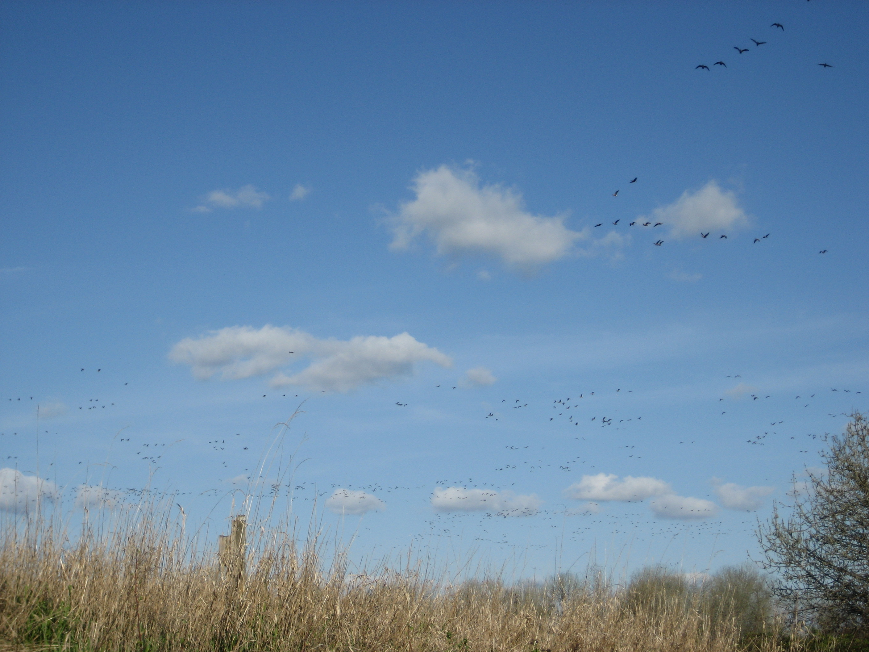 Jackson Bottom Wetlands Preserve in Hillsboro. Category:Images of Hillsboro